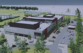 A photo of a graphic model of the new Kingswood School building.